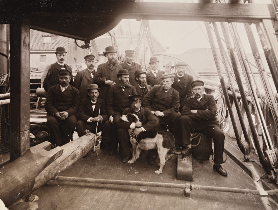 Photograph of the members of Nansen's Fram expedition, 1893-96, After the return to Christiana in August 1896